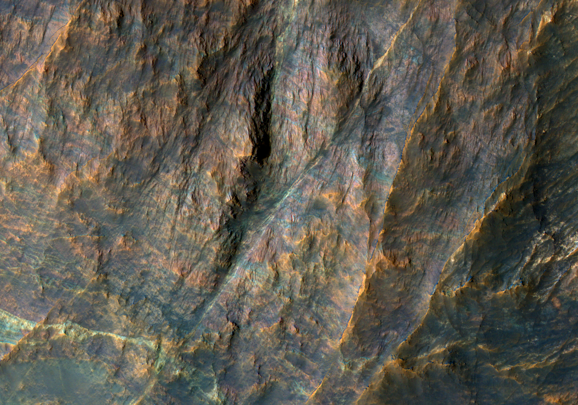 Terra Sabaea is the region of ancient highlands north of the Hellas impact basin. The enhanced color image shows bands of bedrock with different colors. Such colorful bedrock is typical of ancient Mars, when water played a more active role in altering minerals, and multiple geologic processes were very active (impact, volcanism, fluvial, tectonic). The ridges or bright or dark lines that cut across the layers mark faults, places where the crust fractured and accommodated motions. A field geologist could spend years mapping the geology of the terrain covered by this image. Width of field of view is about 1 km. Written by: Alfred McEwen (audio by Tre Gibbs) (24 January 2013) This is a stereo pair with ESP_030606_1585.